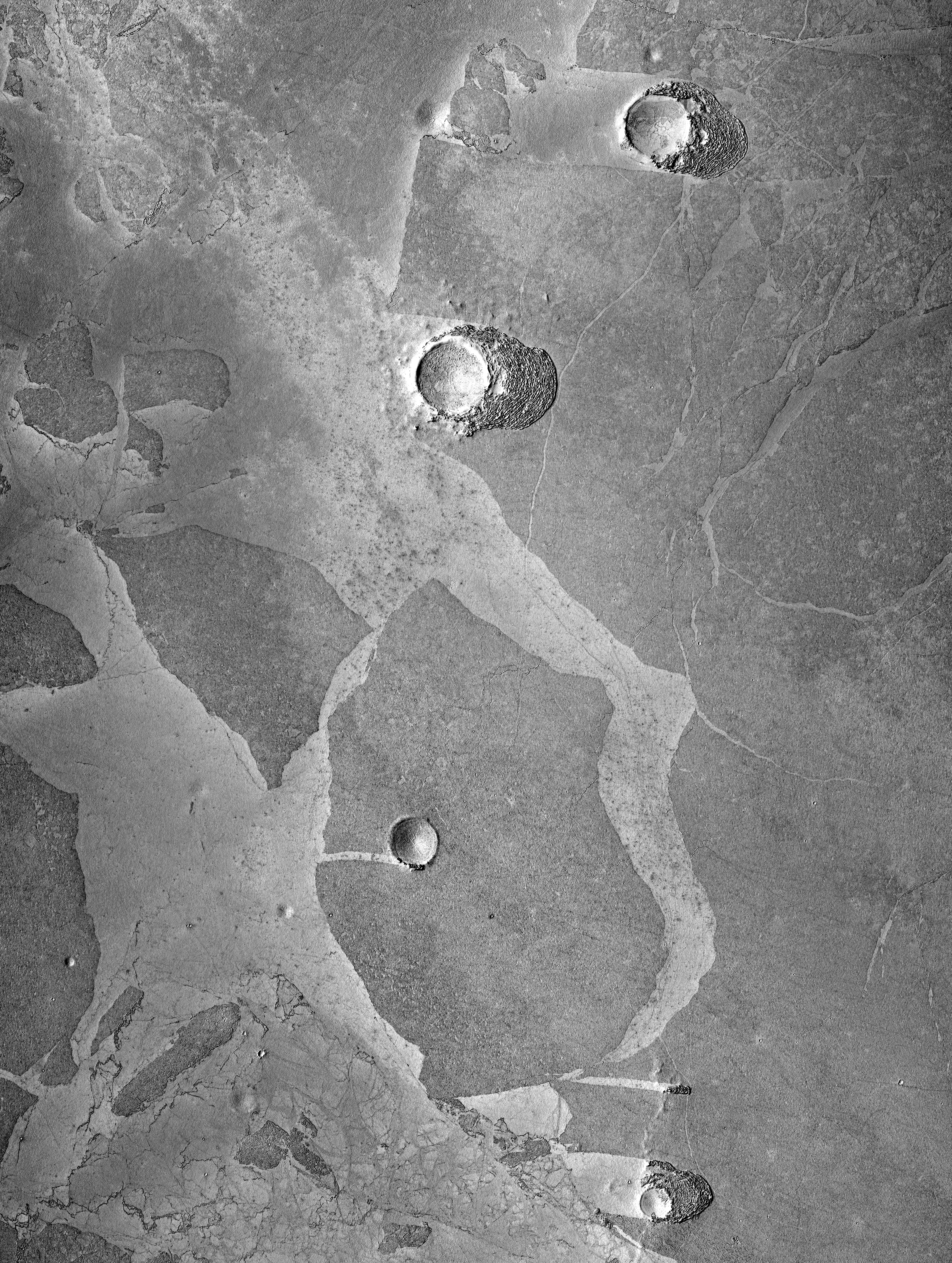 Part of Elysium Planitia on Mars. Centered at 5.9°N, 150.7°E. Size of the image is 24×31 km, north is up. Photo by Mars Reconnaissance Orbiter's Context Camera (CTX), contrast is increased. Sun elevation is 36.6°; spacecraft altitude is 270.99 km. Plate-like terrain, interpreted as ice which moved on a sea of water (Murray et al., 2005) or pieces of crust on cooling lava sea (Ryan, Christensen, 2012). The plates moved to the left, and obstacles (crater rims) turned them into piles of pieces (Murray et al., 2005).